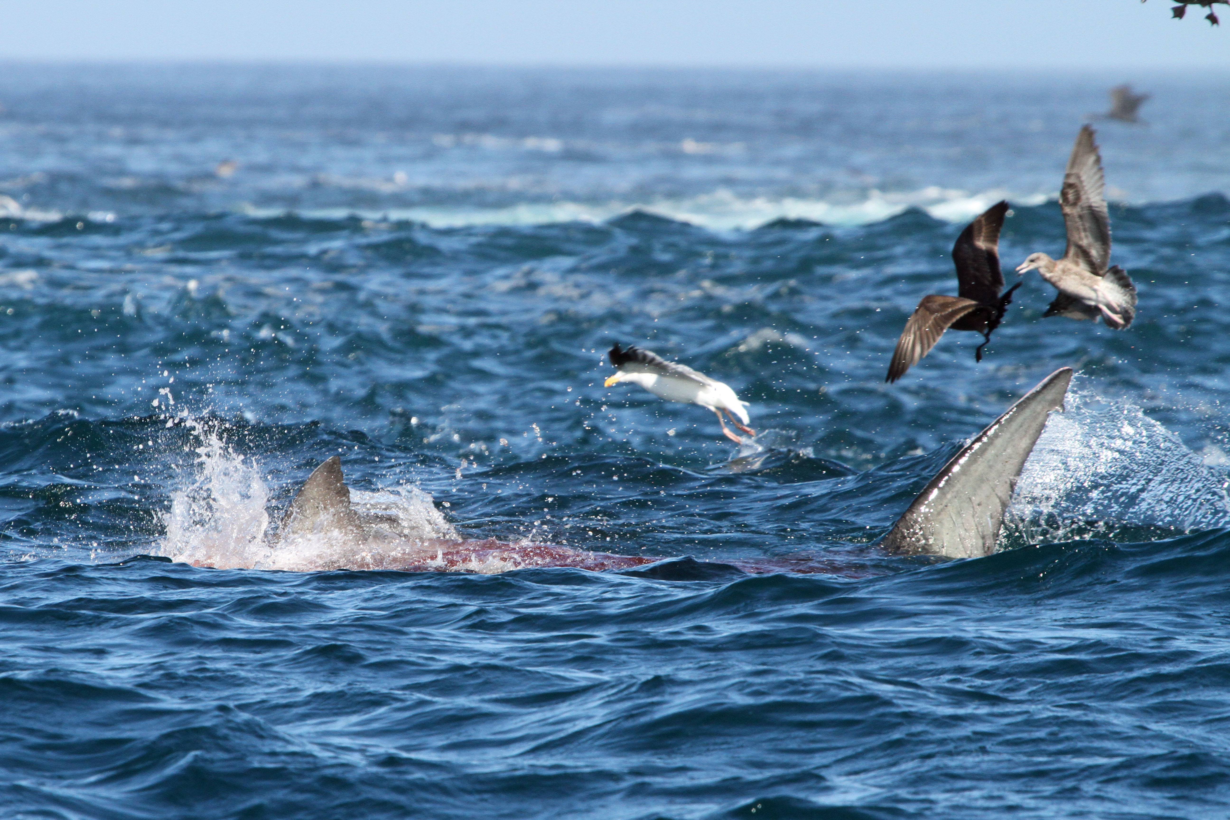 Great White Shark attacking a Sea Lion